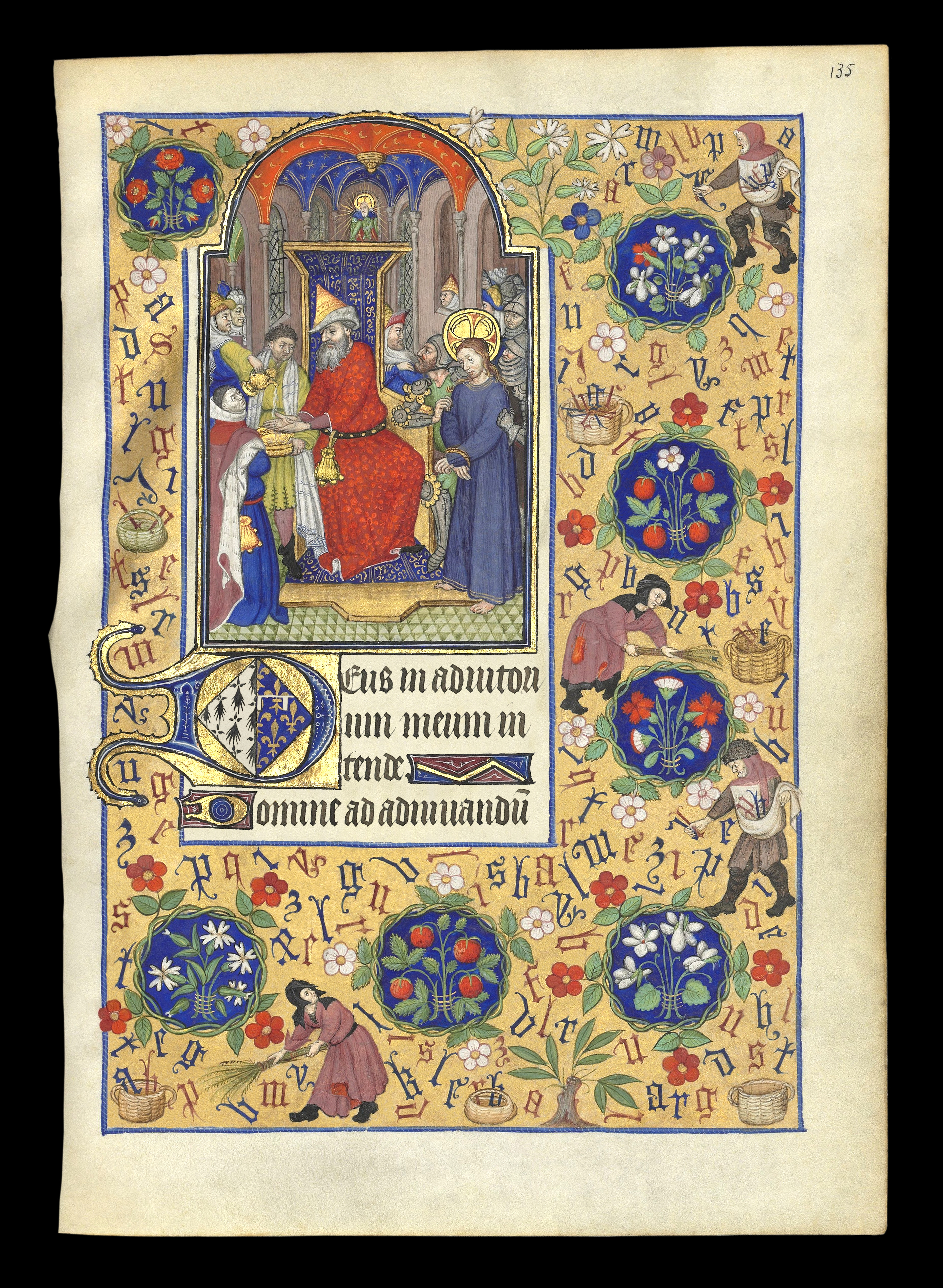 Horae ad usum romanum, Book of Hours of Marguerite d'Orléans (1406–1466), folio 135r., miniature of Pilate washing his hands of the fate of Jesus. Around, peasants collecting letters of alphabet. CoA of Brittany and Orleans in the Initial letter.